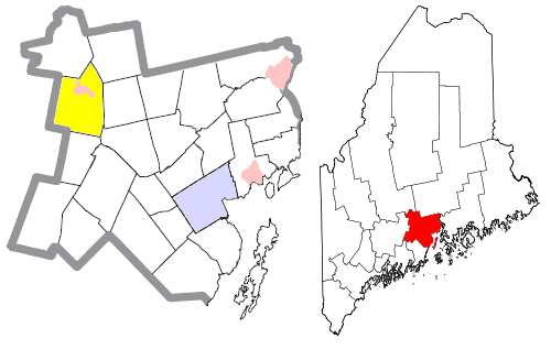 Map of the divisions of Waldo County, Maine, United States, with the town of Unity highlighted in yellow. The city of Belfast is light blue; other towns are white; and pink areas are census-designated places within towns. The pink area surrounded by Unity (also a part of the town) is the census-designated place of Unity.